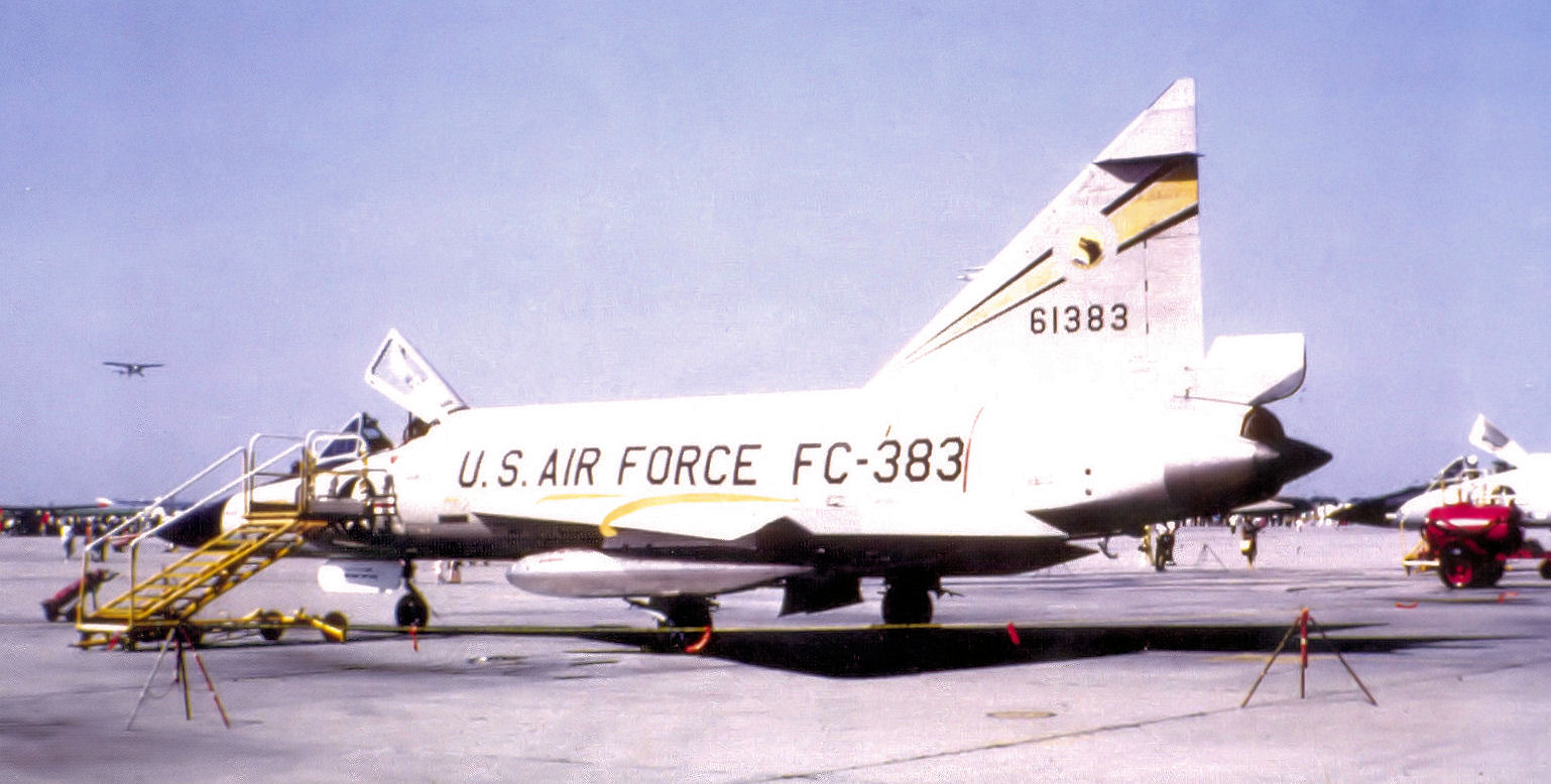 326th Fighter-Interceptor Squadron Convair F-102A-75-CO Delta Dagger 56-1383 328th Fighter Wing, Richards-Gebaur AFB, Missouri, May 1964